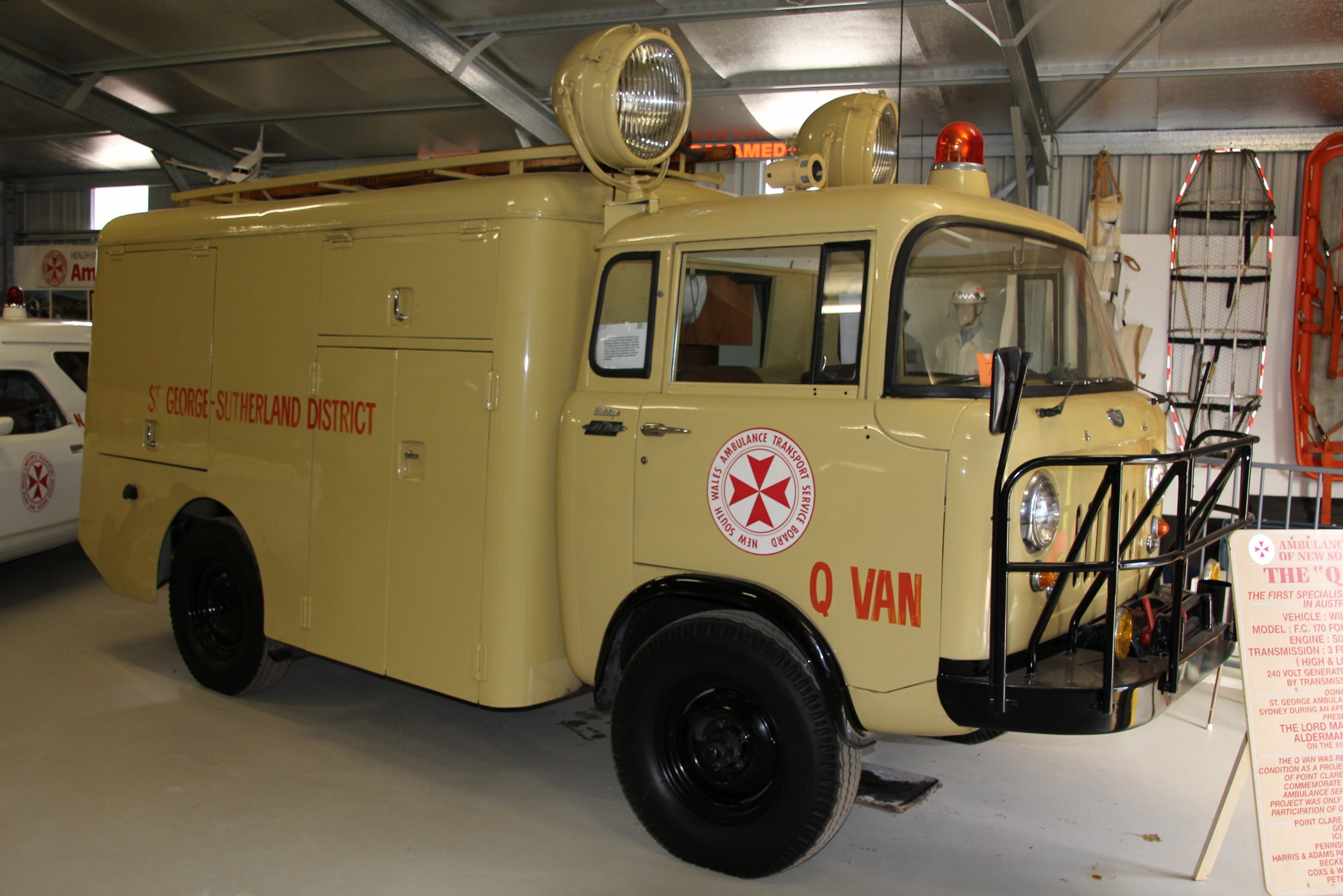 1961 Willys Jeep FC170 4WD ambulance rescue truck. Body built by Wormald Bros in Melbourne for the former St. George - Sutherland District of the New South Wales Ambulance Transport Service Board. This was the first purpose built rescue truck in operation in Australia. Part of the historical collection of the Ambulance Service of New South Wales. Taken at the Temora Ambulance Museum (part of the Temora Rural Museum), Temora, New South Wales.